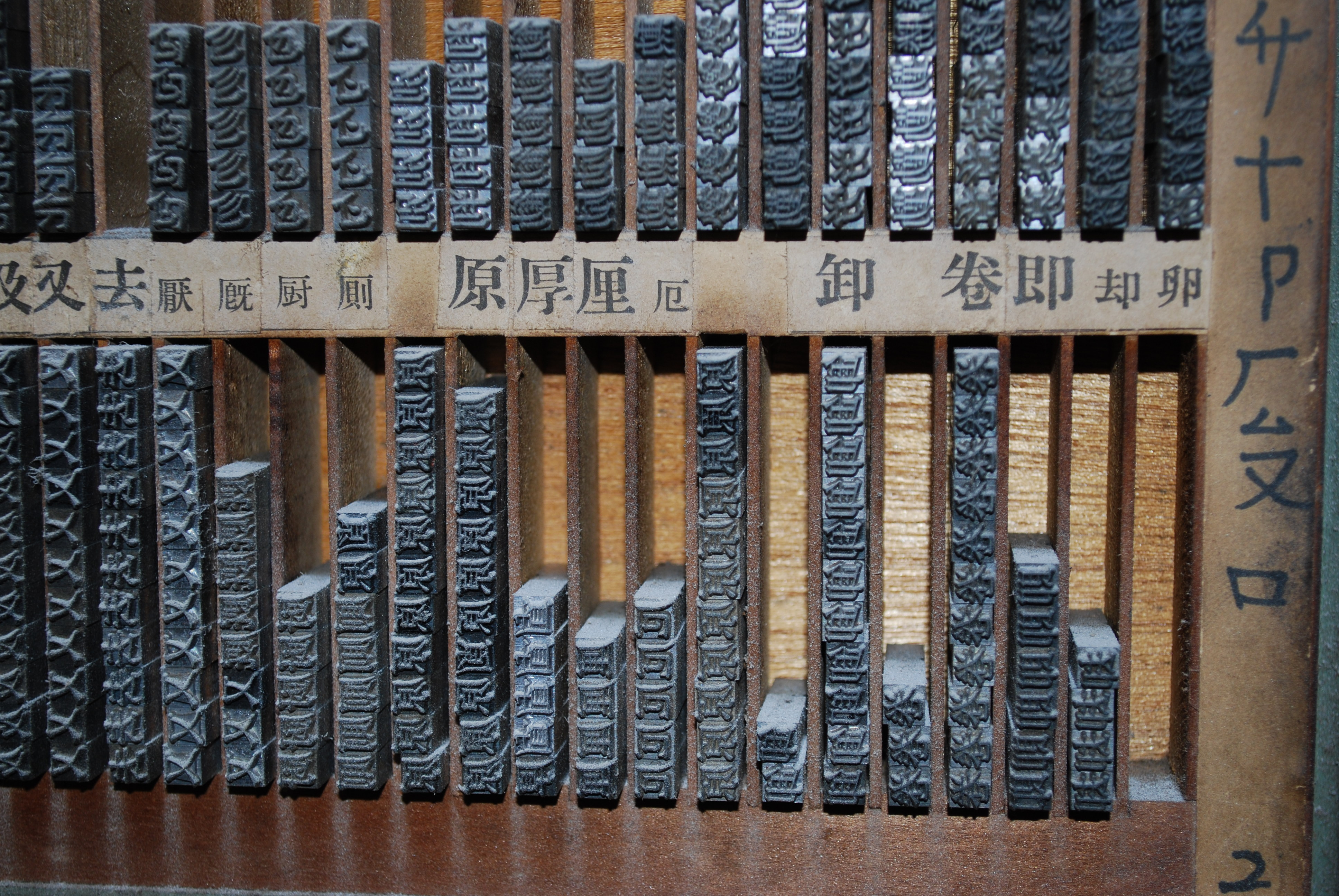 Japanese printing type,Japan